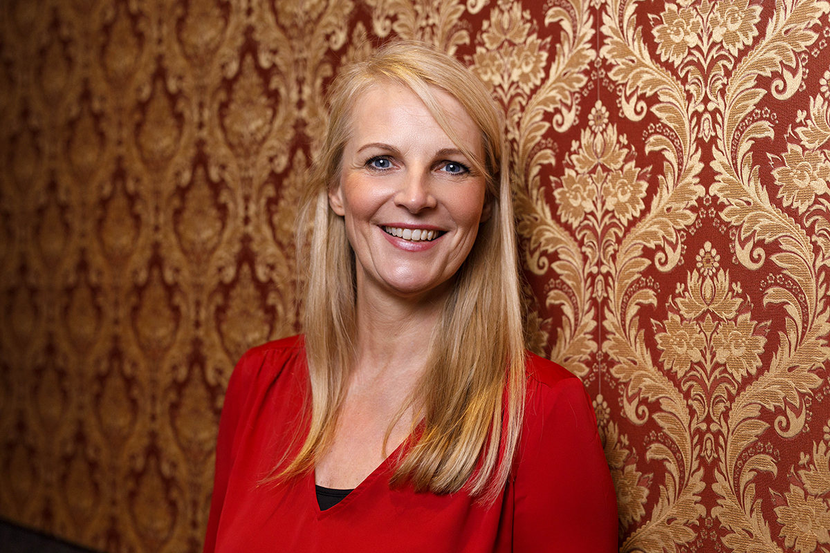 Barbara Ruscher bei der Pressekonferenz zum Köln Comedy Festival 2018 im Gloria. Köln, 25.10.2018